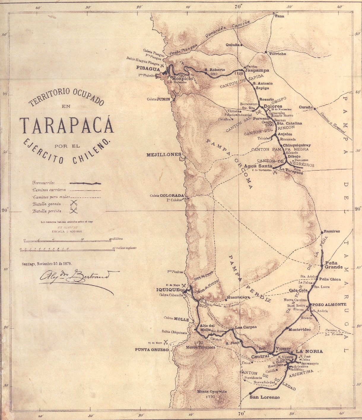 Map of the territory occupied in Tarapacá by the Chilean Army, in the War of the Pacific. Santiago, November 25 of 1879